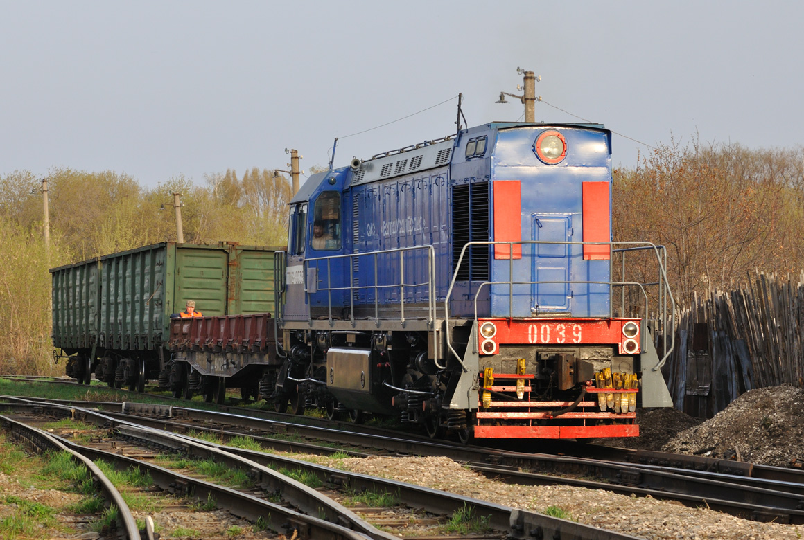 Shunter TGM6D-0039, Samara, Russia